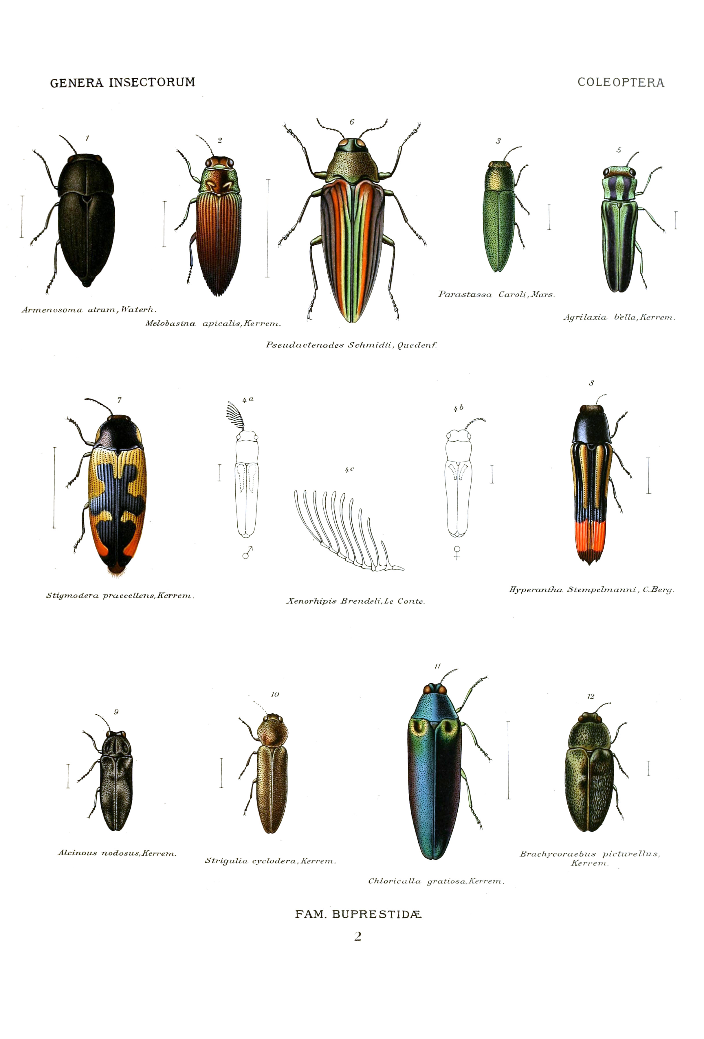 Armenosoma atrum Waterh. = Armenosoma atrum Waterhouse, 1887 Melobasina apicalis Kerrem. = Melobasina apicalis Kerremans, 1900 Parastassa Caroli Mars. = Paratassa coraebiformis (Fairmaire, 1875) Xenorhipis Brendeli Le Conte. = Xenorhipis brendeli LeConte, 1866 (4a: body and antenna of male, 4b: body and antenna of female, 4c: antenna of male) Agrilaxia bella Kerrem. = Agrilaxia bivittata (Gory, 1841) Pseudactenodes Schmidti Quedenf. = Pseudactenodes schmidti (Quedenfeldt, 1890) Stigmodera praecellens Kerrem. = Temognatha maculiventris (Macleay, 1863) Hyperantha Stempelmanni C.Berg. = Hiperantha stempelmanni Berg, 1889 Alcinous nodosus Kerrem. =Aaaaba nodosa (Deyrolle, 1864) Strigulia cyclodera Kerrem. = Strigulia cyclodera (Fairmaire, 1891) Chloricalla gratiosa Kerrem. = Chloricala gratiosa Kerremans, 1893 Brachycoraebus picturellus Kerrem. = Brachycoraebus viridis (Kerremans, 1900)